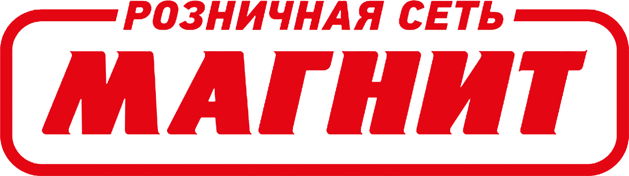 Own work by uploader, traced from (the original is not an object of copyright)